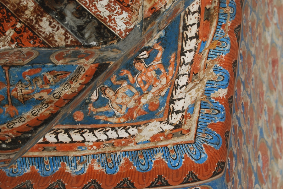 Taken by Sreekumar Menon on 12 August 2008 during visit to Alchi Monastery. Photo is of painted ceiling of chorten in the complex, paintings supposed to be of 12th/13th century AD.